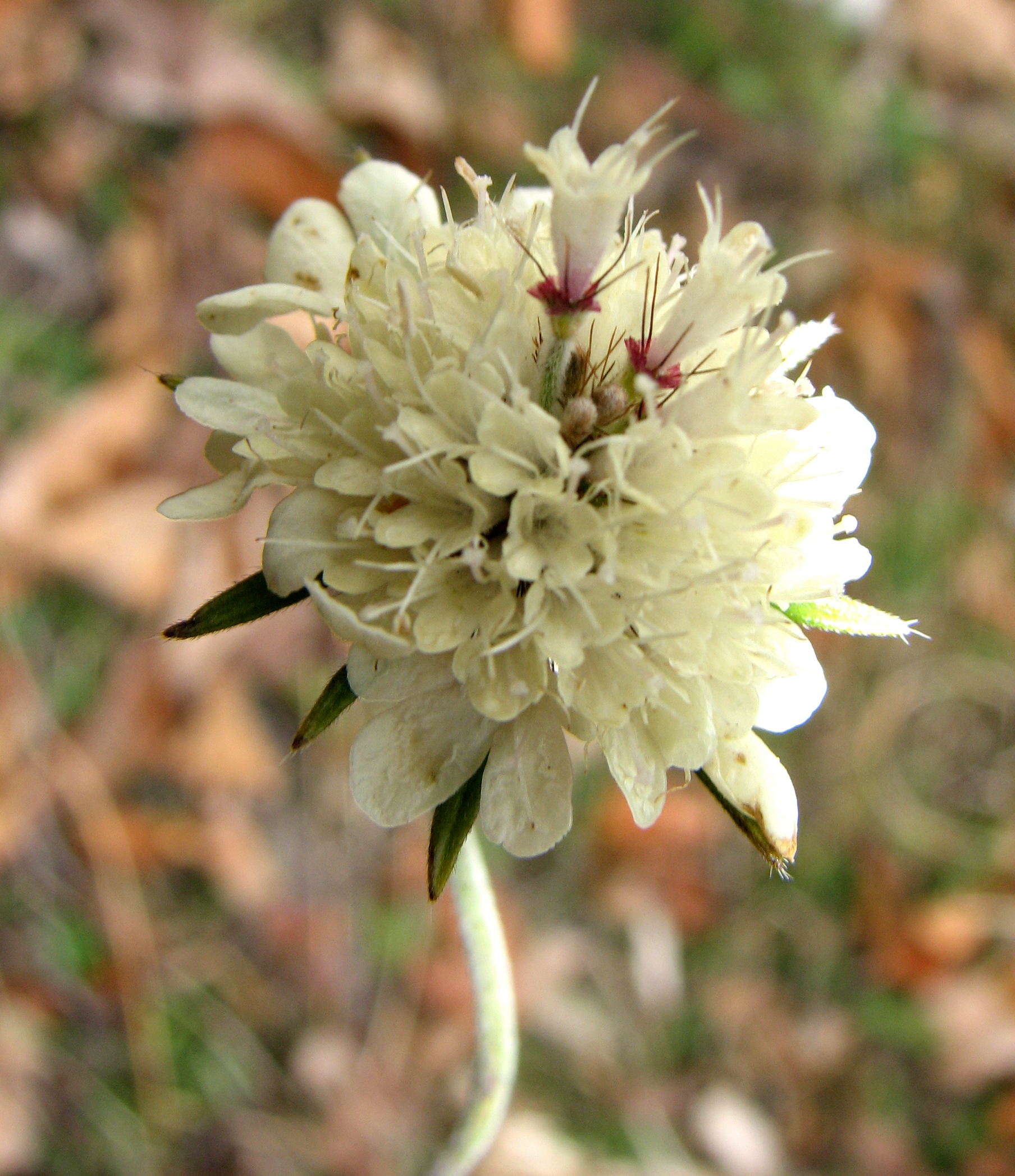 Scabiosa ochroleuca, Gschwendtberg, Frohnleiten, Styria, Austria, about 930m